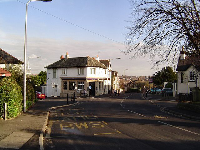 Downtown Dinas Powys. A view of the central square of Dinas Powys taken from the bus stop. The building straight ahead is the Natwest bank and on the right is the Three Horseshoes pub.